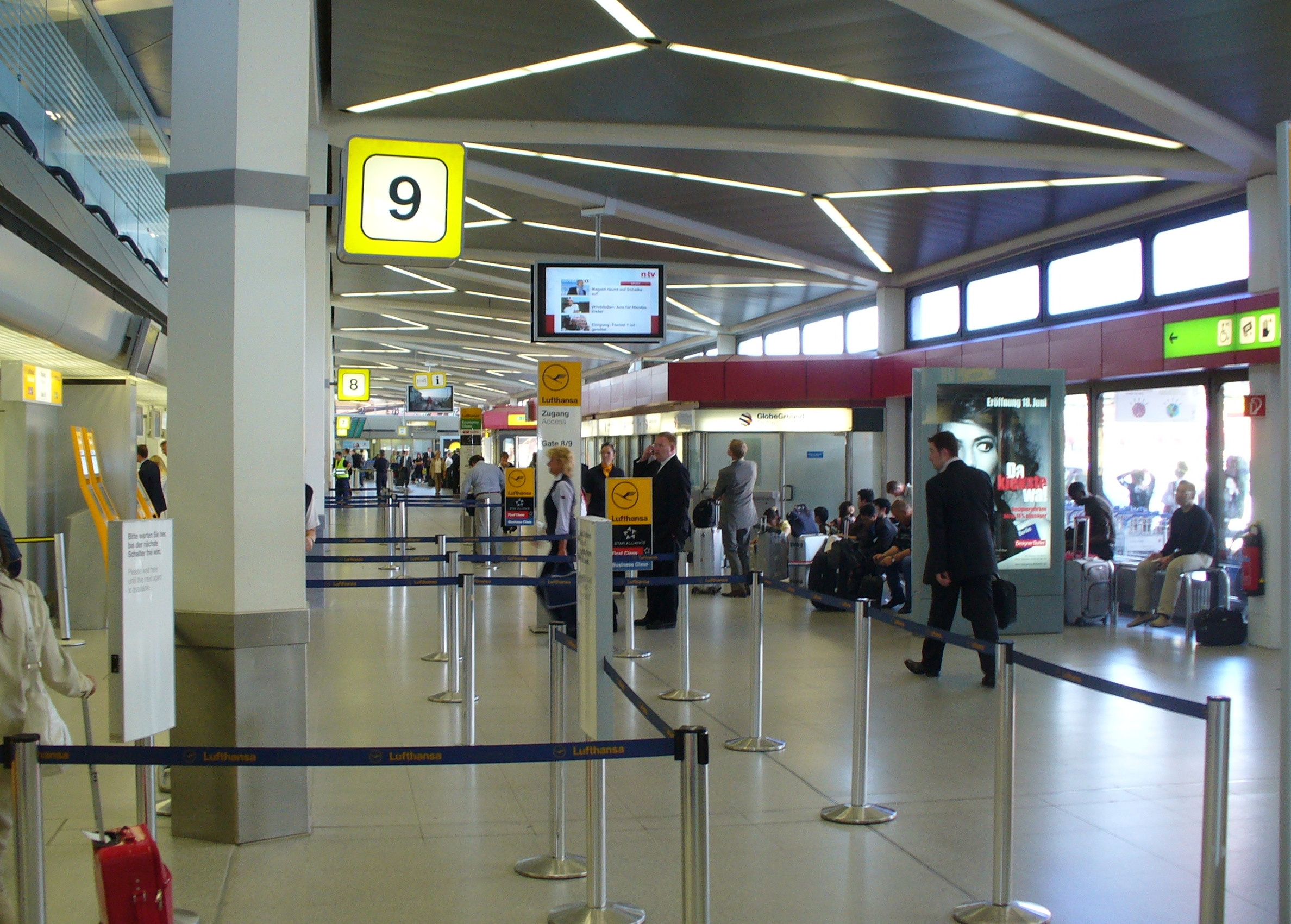 Interior view of Terminal A at Berlin Tegel Airport (check-in and gate access on the left, curbside on the right)